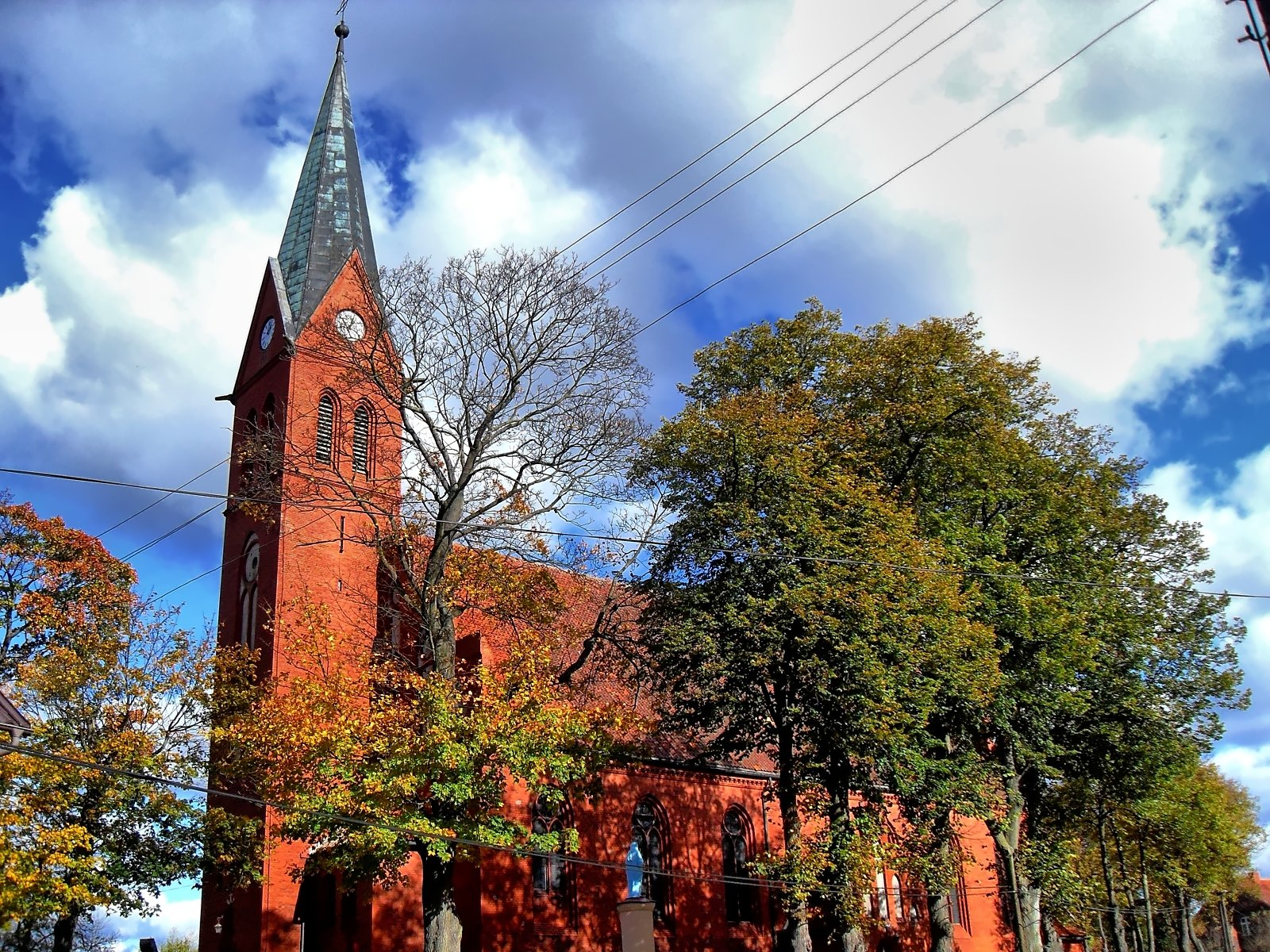 Silhouette of the church from the Long Street